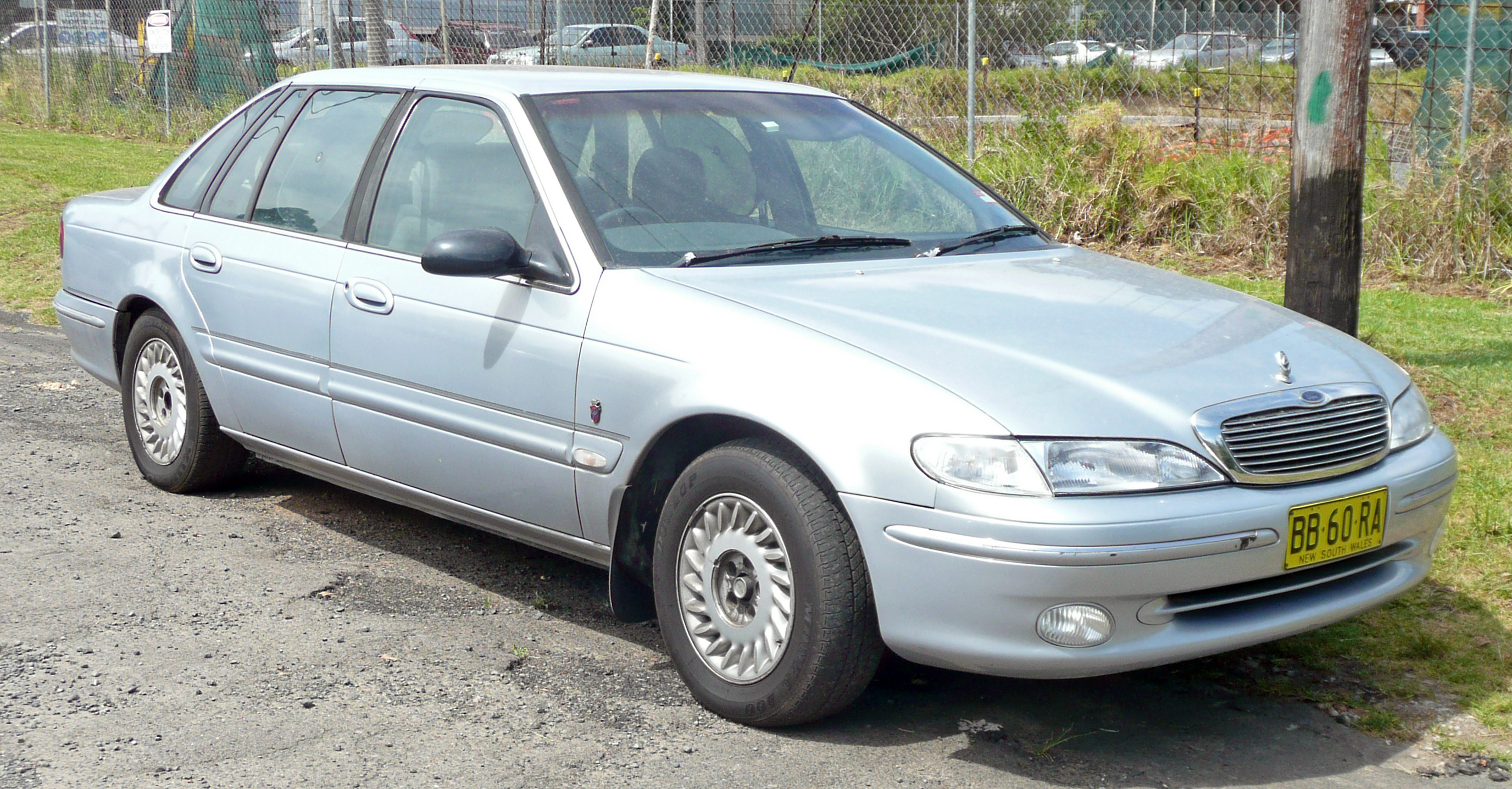 1996 Ford Fairlane (NF II) Ghia sedan. Photographed in Sutherland, New South Wales, Australia.